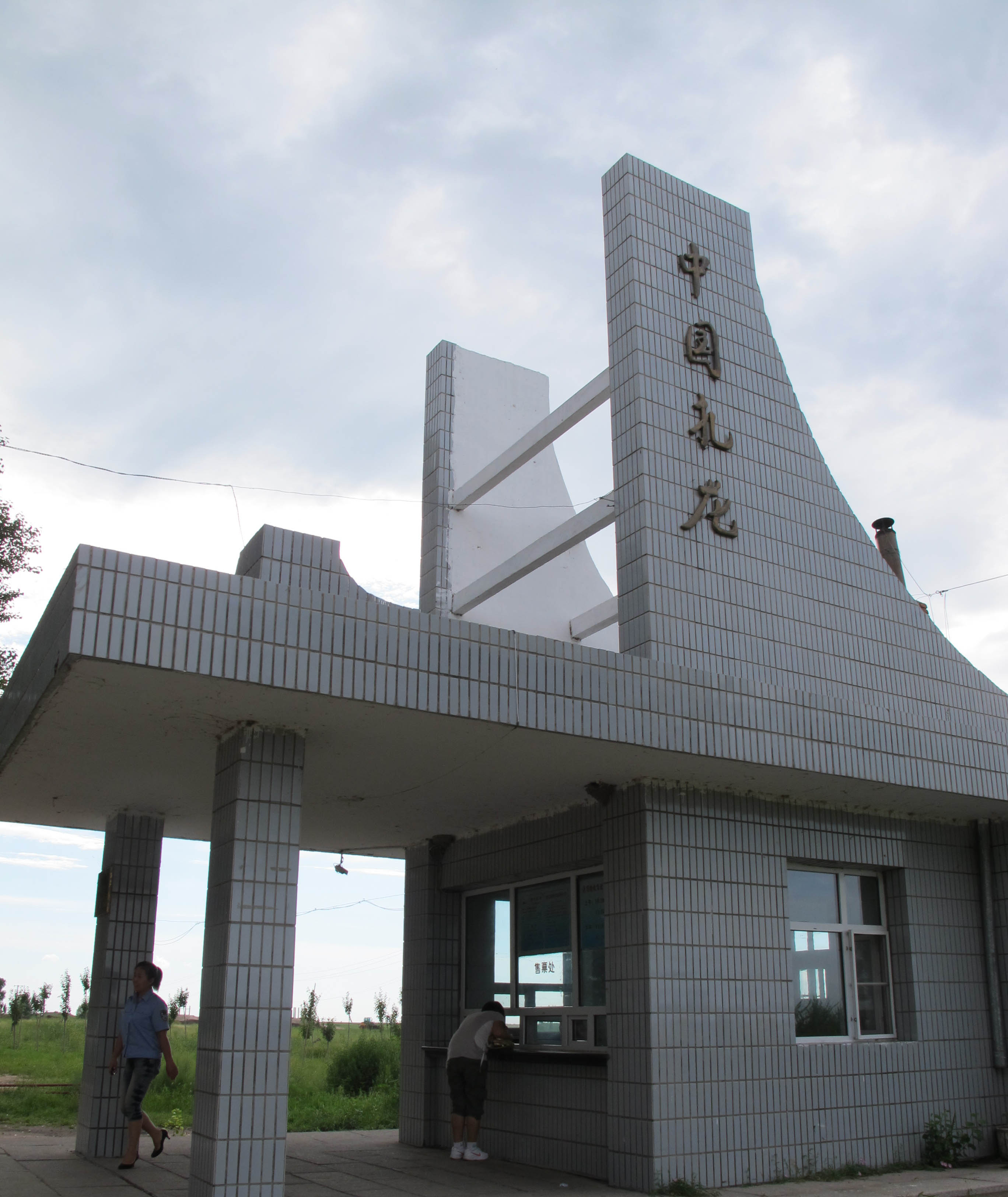 Zhalong Nature Reserve interance, Heilongjiang,China